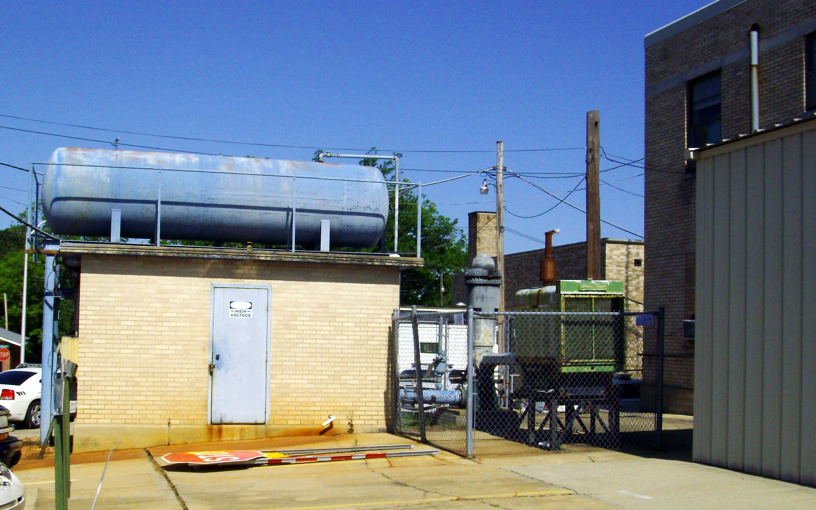 Well #3 with treatment process behind city hall in Monticello